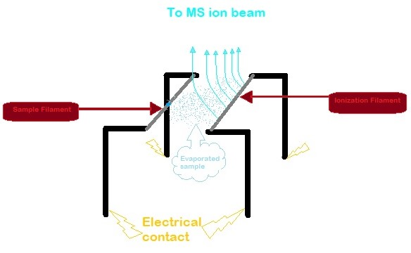 the image shows how two filaments work in thermal ionization mass spectrometry